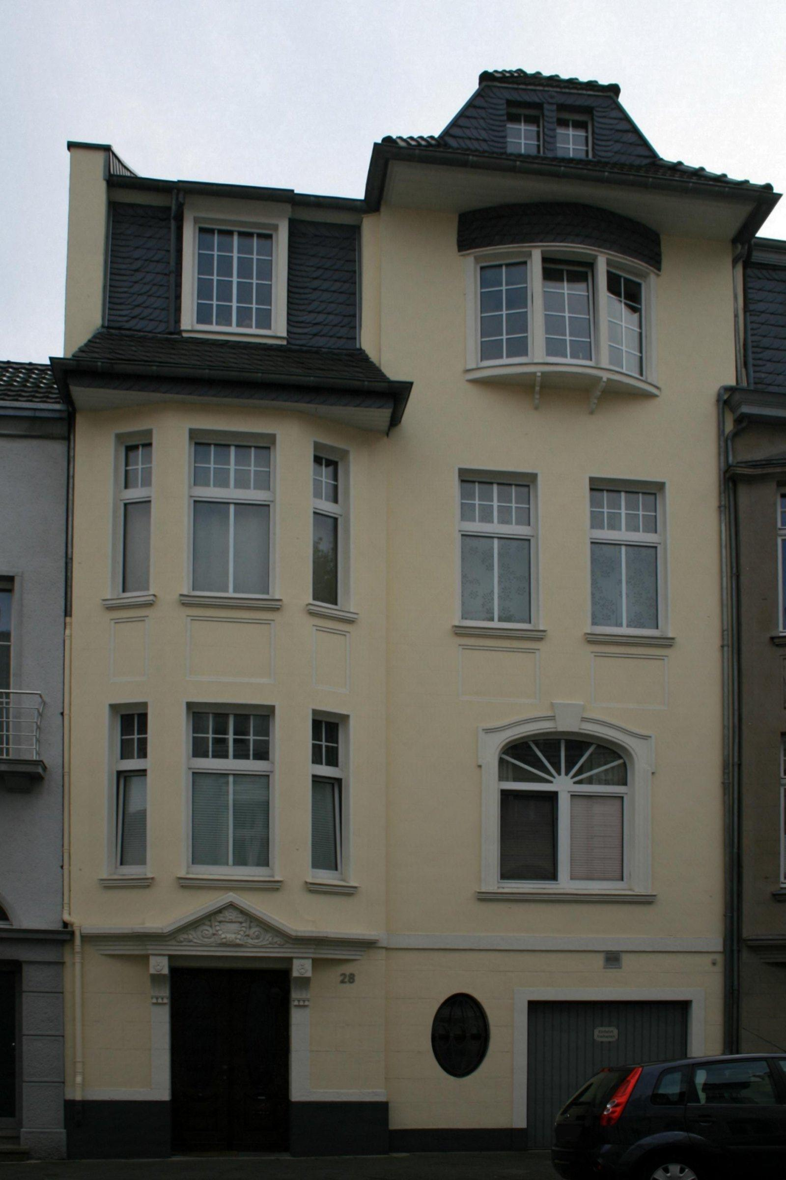 Cultural heritage monument No. H 082 in Mönchengladbach